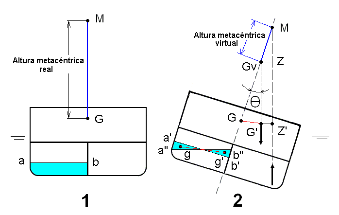 free surface efect on ship's stability